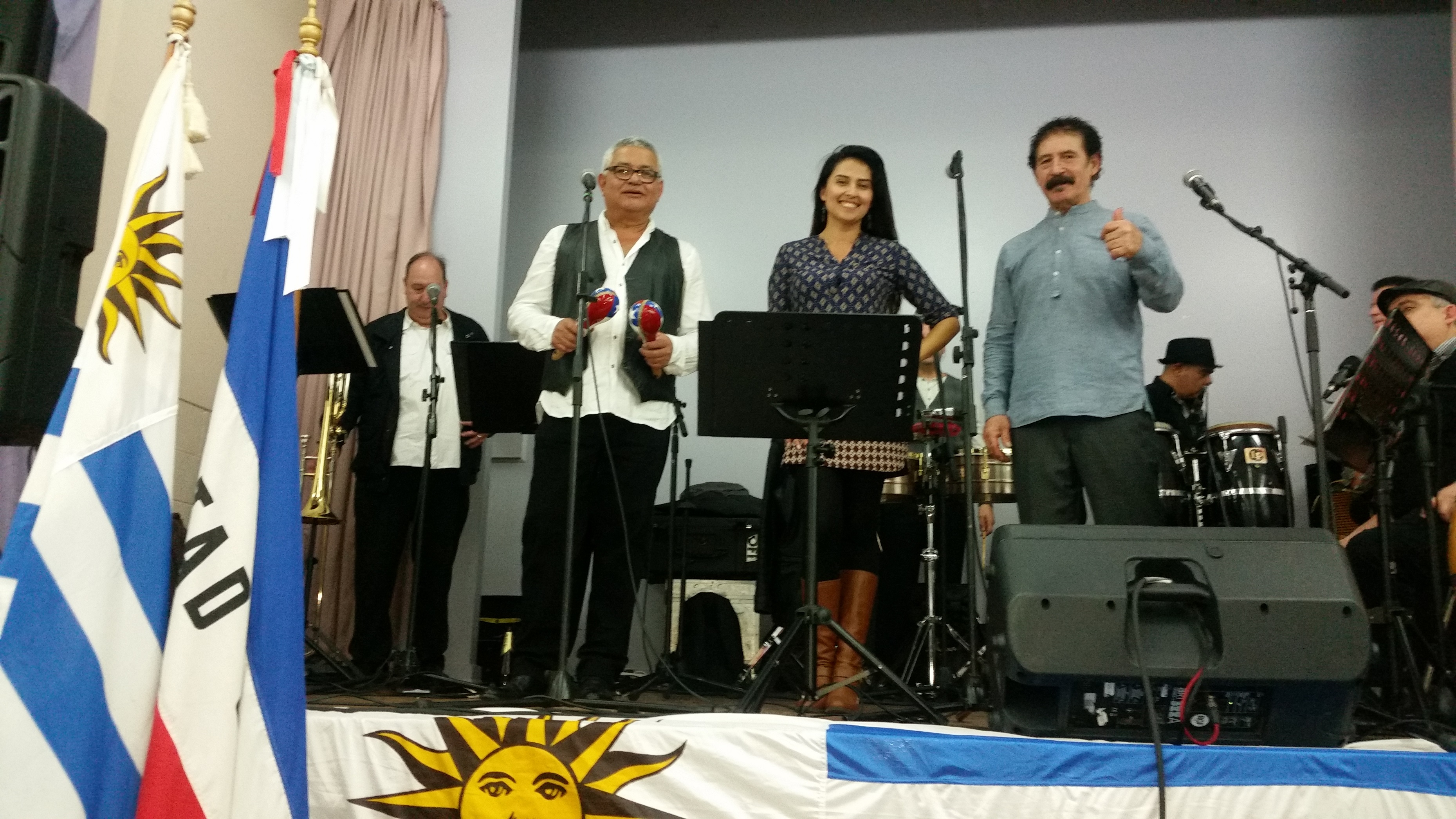 Sonya performing with her band Bahia at the Uruguayan Club Melbourne